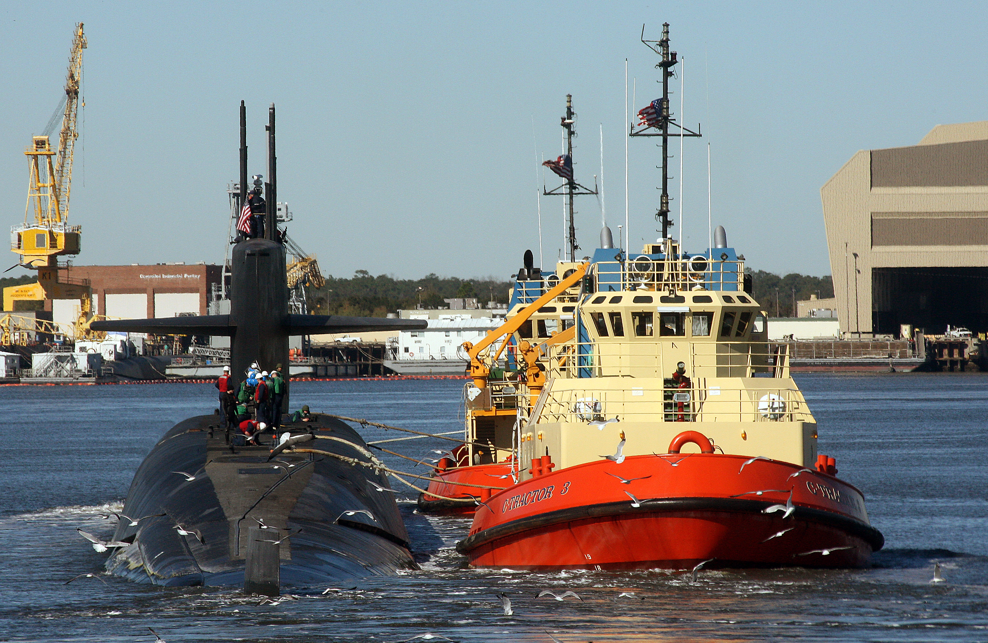 KINGS BAY, Ga. (Jan. 9, 2008) The ballistic-missile submarine USS Rhode Island (SSBN 740) is escorted by tug boats to her berth at Naval Submarine Base Kings Bay, Ga. (U.S. Navy photo by Mass Communication Specialist 1st Class Kimberly Clifford/Released)